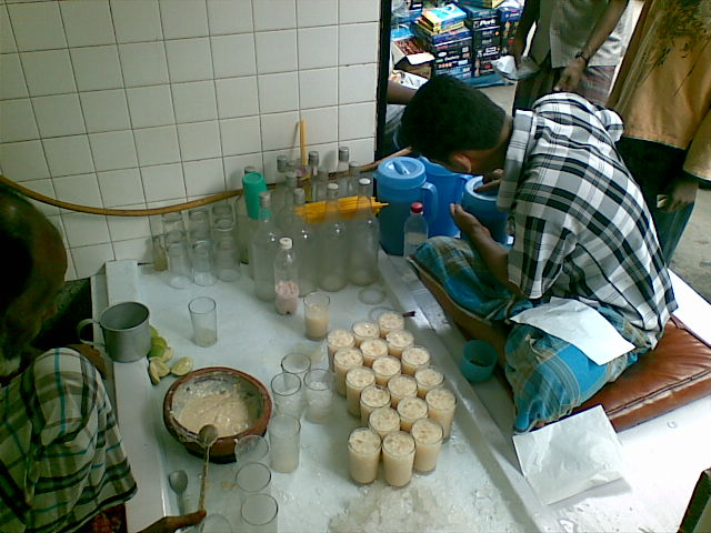 Lassi at Old Dhaka. Nurani Lassi at Chalk Bazaar. Lassi is a popular and traditional yogurt-based drink which originated in the Punjab region of the Indian subcontinent.